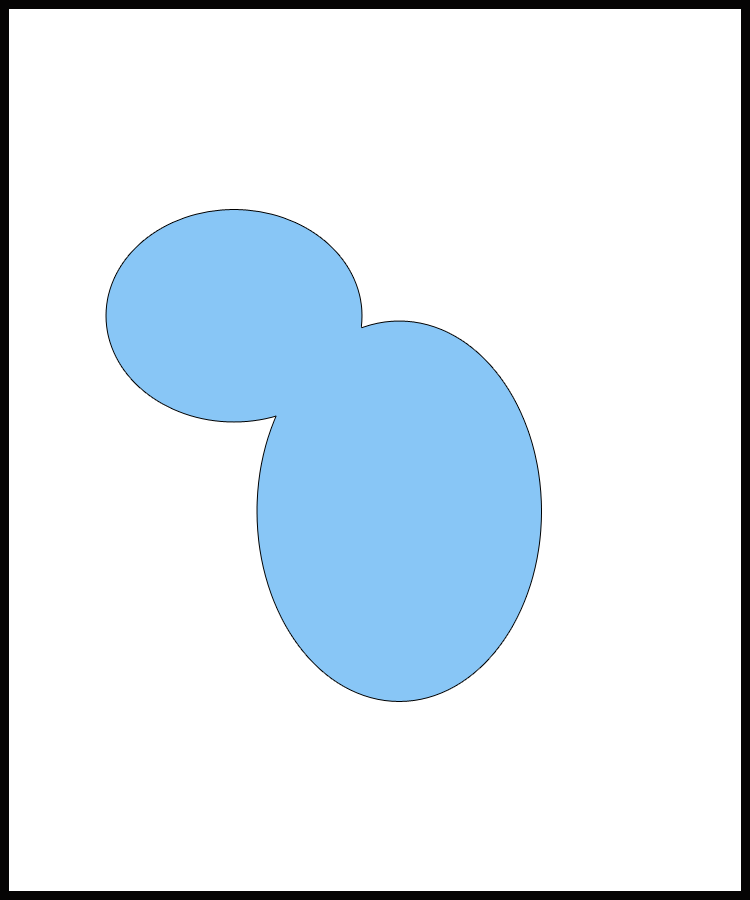 Coalescence